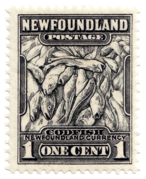 Codfish Stamp (Newfoundland)